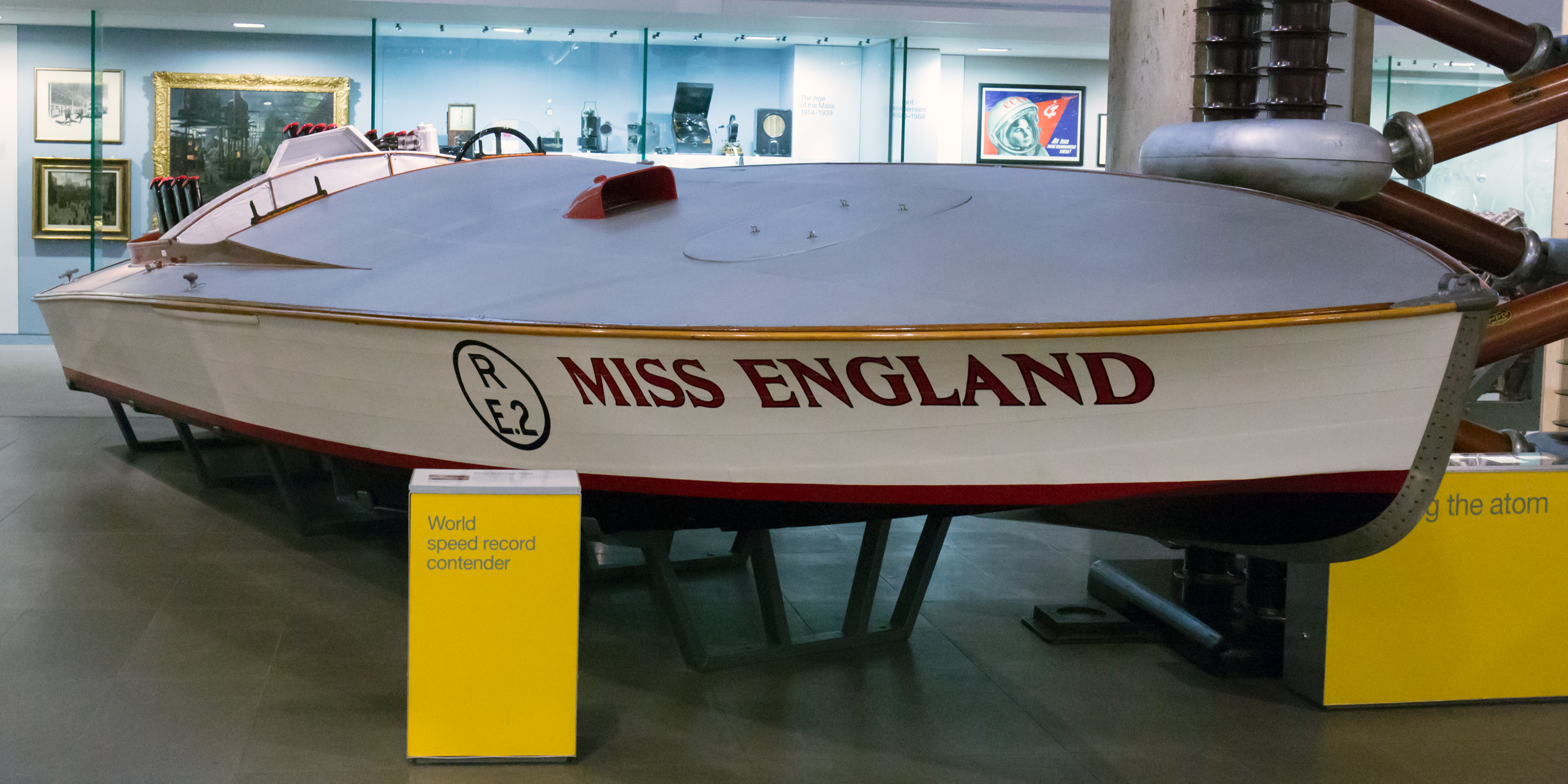 Miss England I